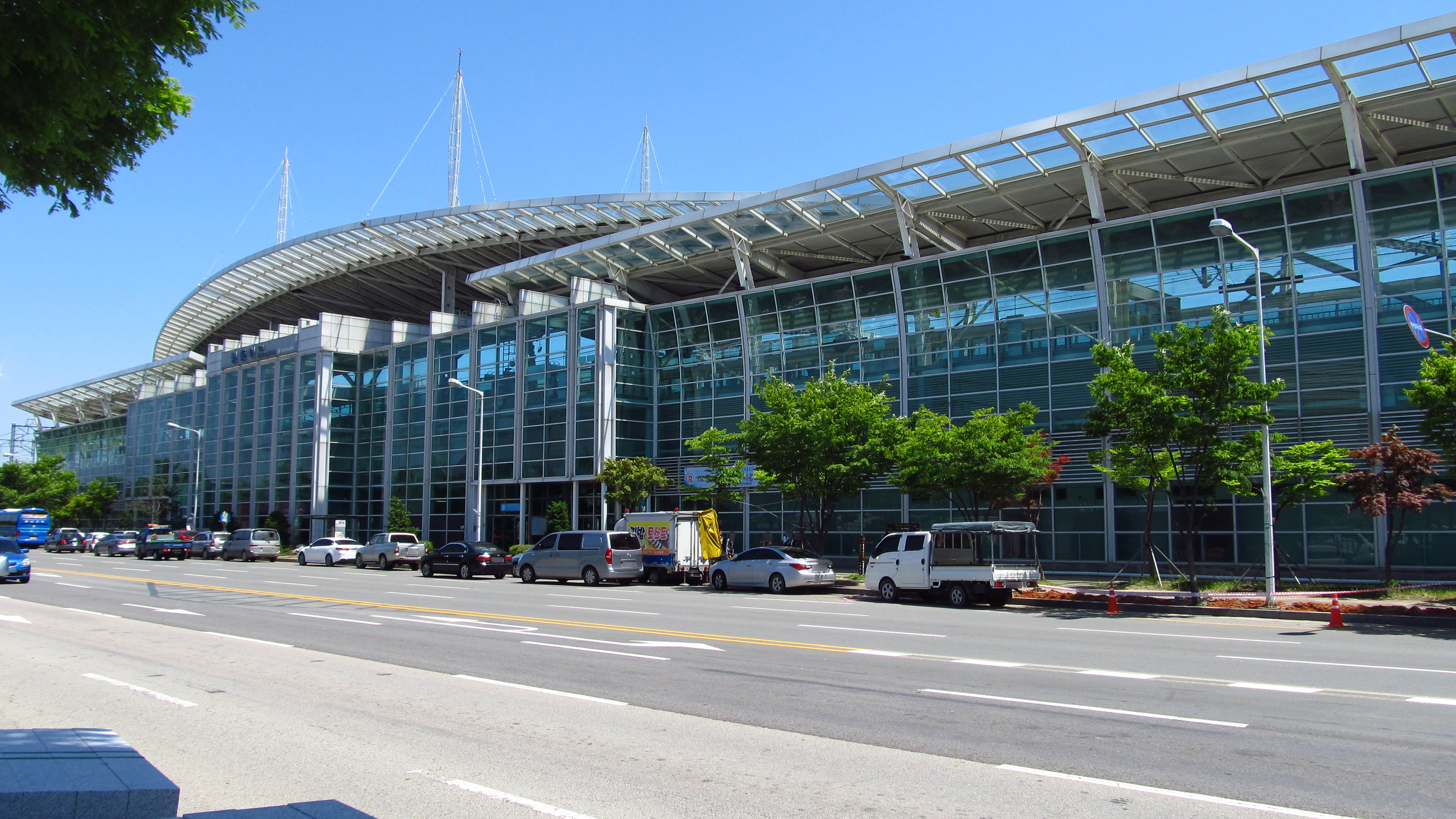 The building of Pyeongdong Station on Gwangju Metro Line 1 in Gwangsan-gu, Gwangju, Republic of Korea(South Korea)